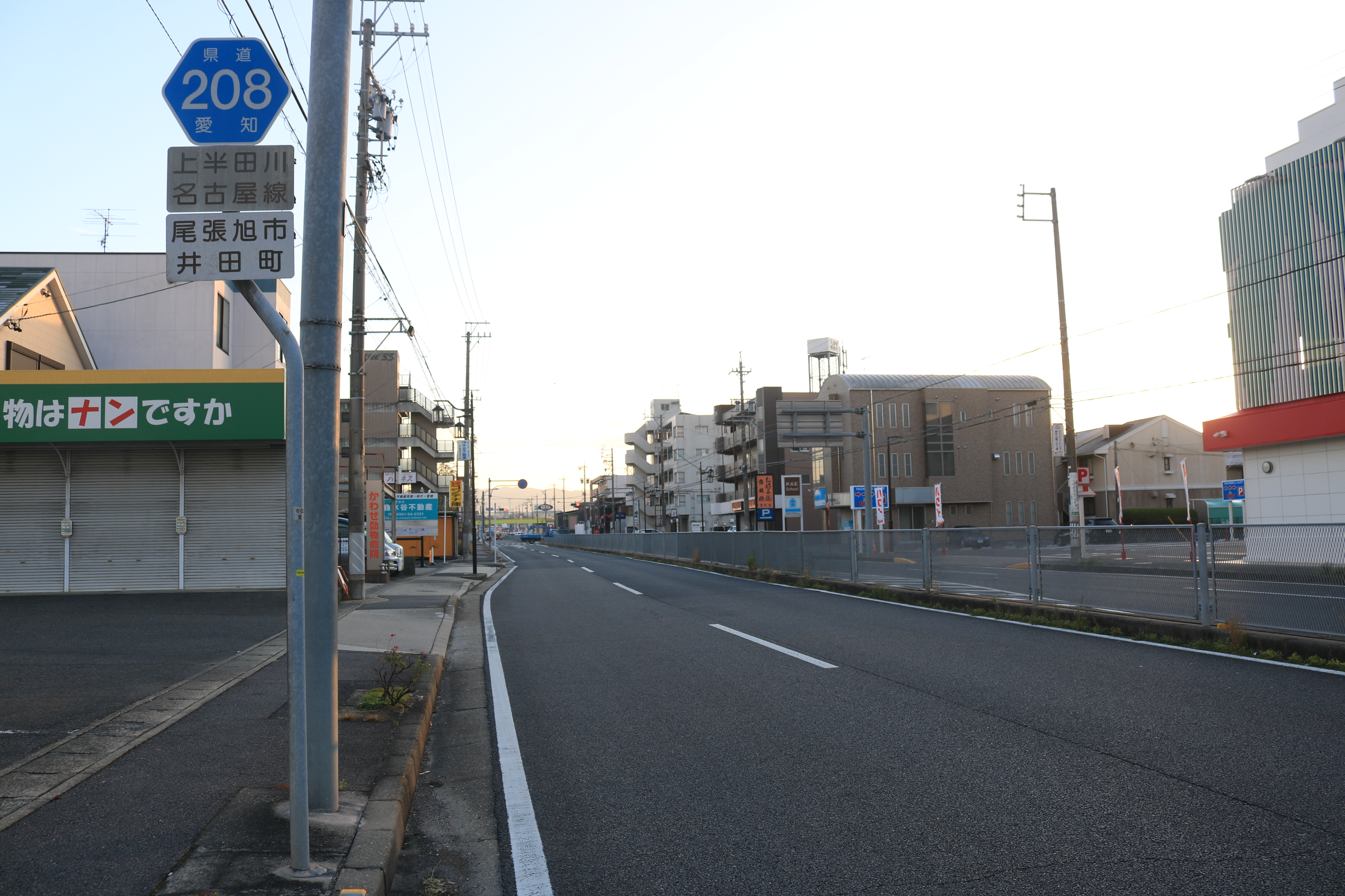 Aichi Prefectural Road Route 208 in Idacho, Owariasahi, Aichi prefecture, Japan.